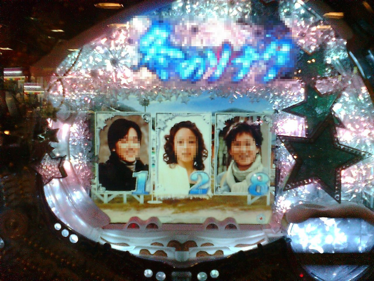 CR Pachinko Winter Sonata, in game center, taken by me.